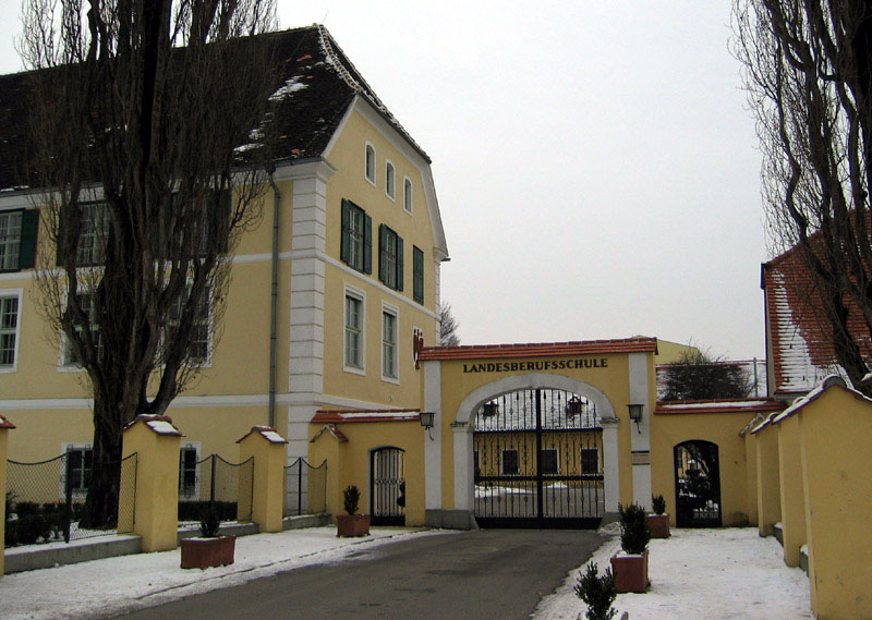 The Batthyány-Castle in Pinkafeld, Burgenland, Austria